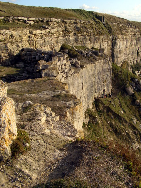 Disused quarry above Mutton Cove The wall of large stone blocks is the seaward wall of a disused quarry near the top of the cliff above Mutton Cove. Above the Portland Freestone quarried at the site are the basal Purbeck strata (thin beds of limestone). A party of young rock climbers are at the base of the vertical cliff below the old quarry wall.